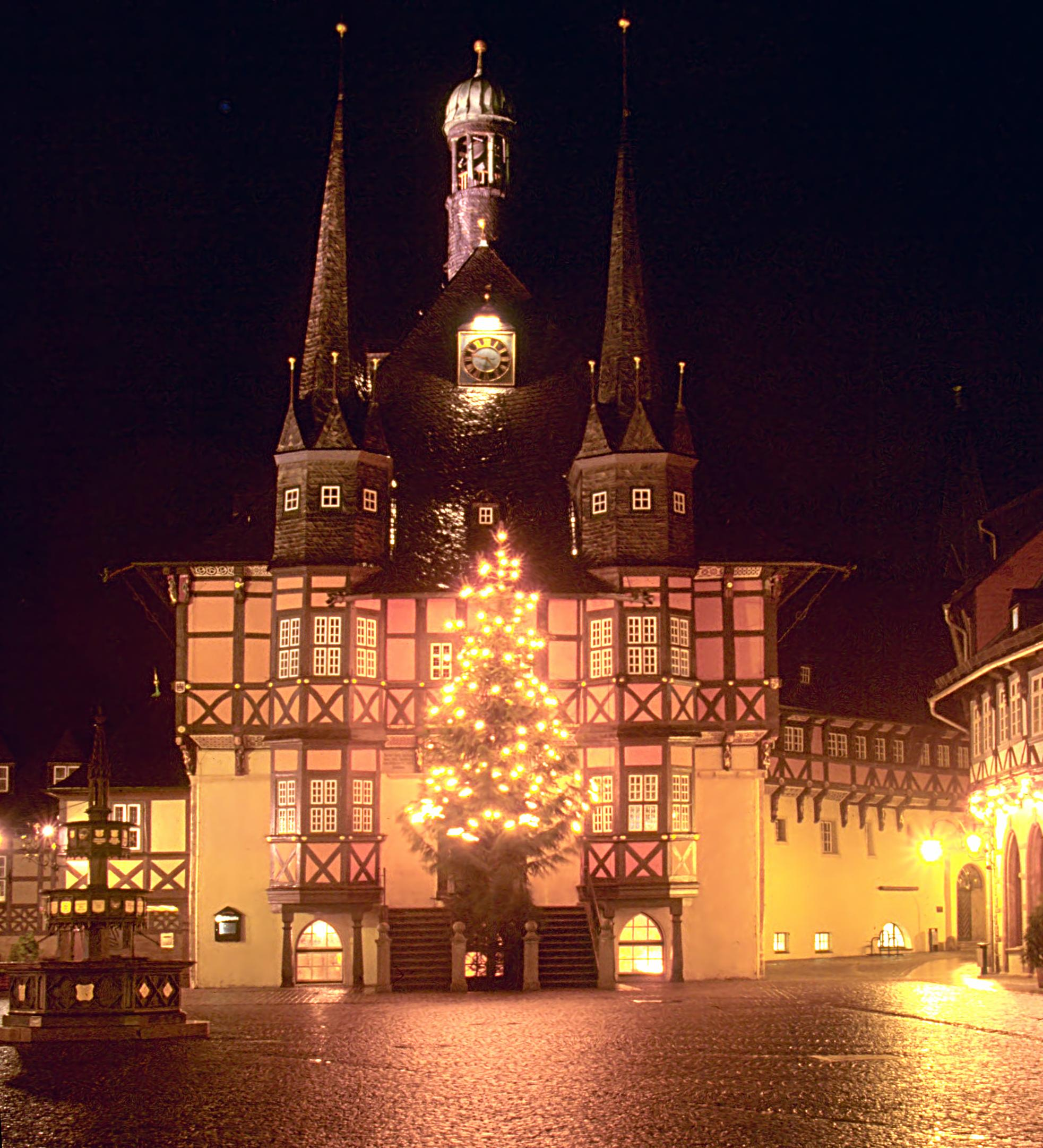 Town hall of Wernigerode with Christmas tree. Photo was taken using the following technique: Film: Kodak slide Lens: 28-80 Filter: none Body: Minolta 600si Support: simple tripod Image with Information in English Bild mit Informationen auf Deutsch